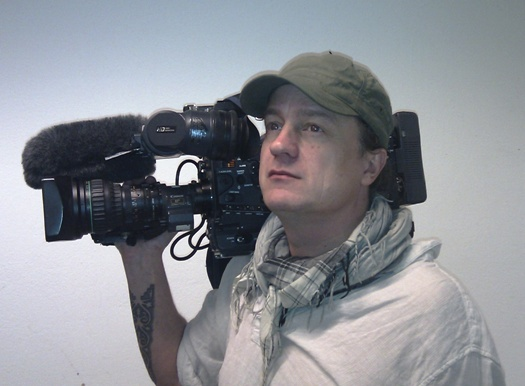 Swedish journalist and TV-personality Per Dahlberg.